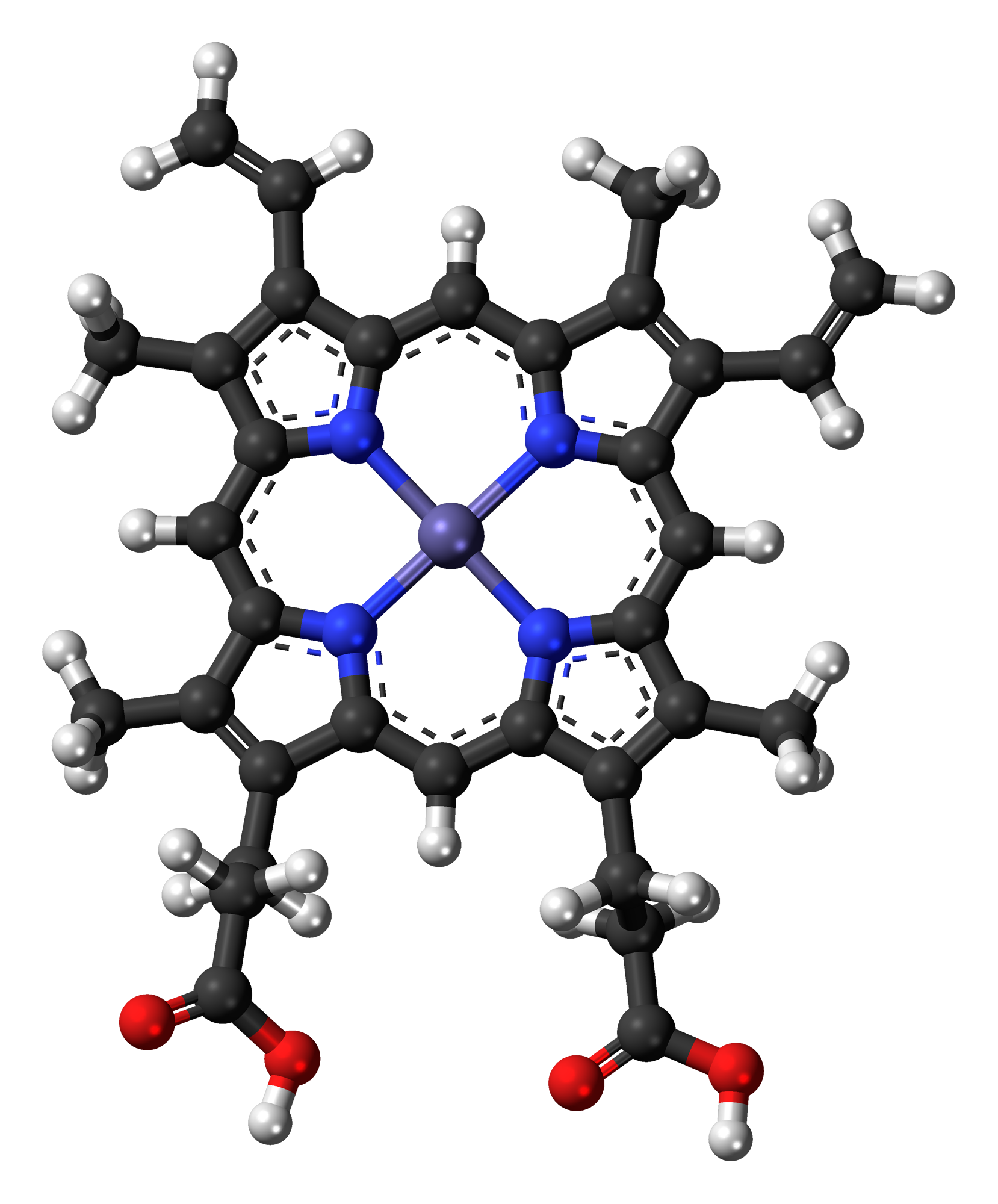 Ball-and-stick model of the Heme B complex, also known as haem B, the core of hemoglobin that carries oxygen in blood. This image shows the electrically neutral form. Colour code: Carbon, C: black Hydrogen, H: white Oxygen, O: red Nitrogen, N: blue Iron, Fe: grey-purple